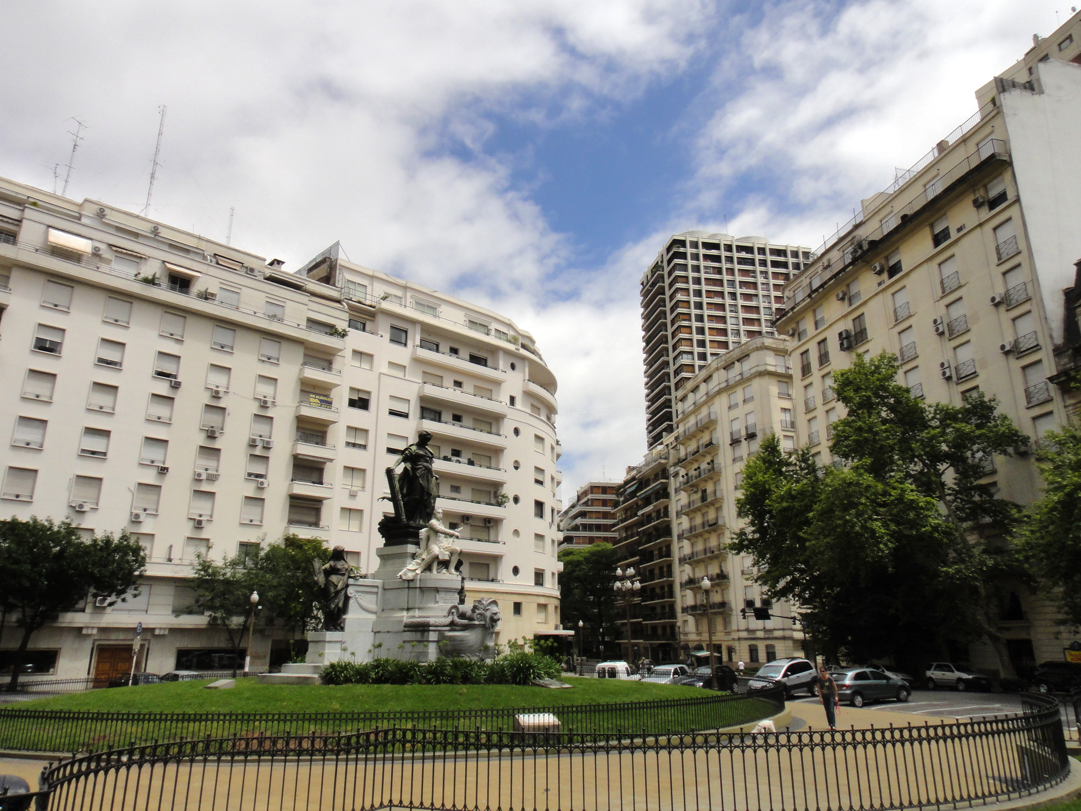 Carlos Pellegrini Square, Buenos Aires